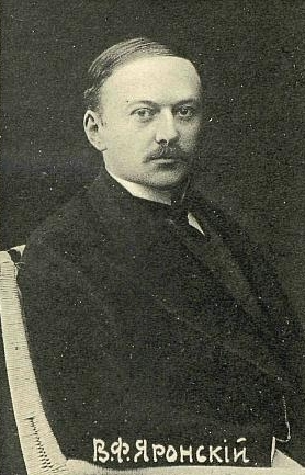 Wiktor Jaroński